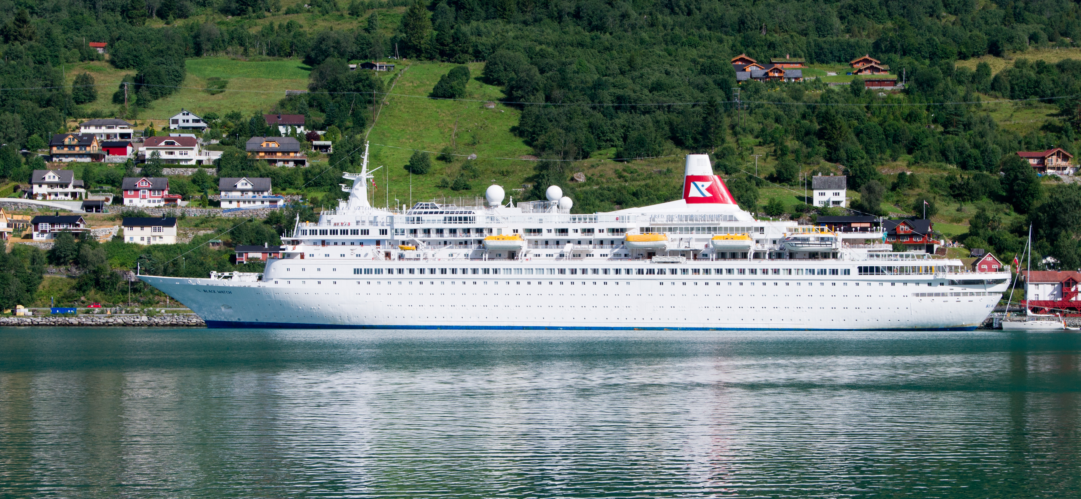 The Black Watch in a Norwegian fjord